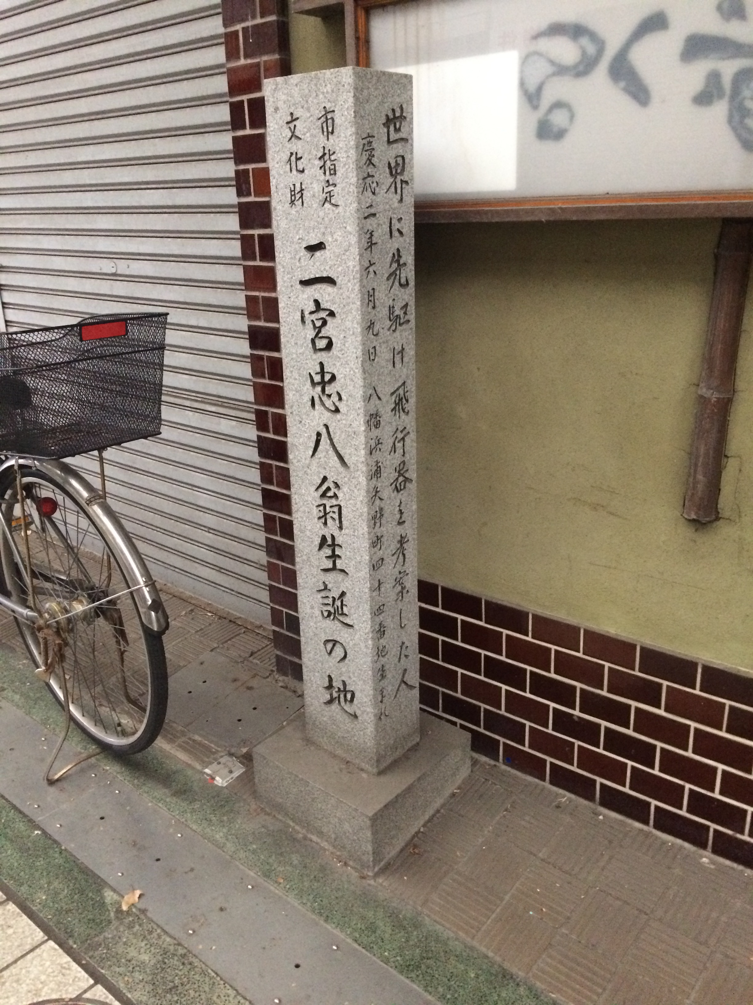 Chuhachi Ninomiya birthplace marker, Yawatamhama, Ehime